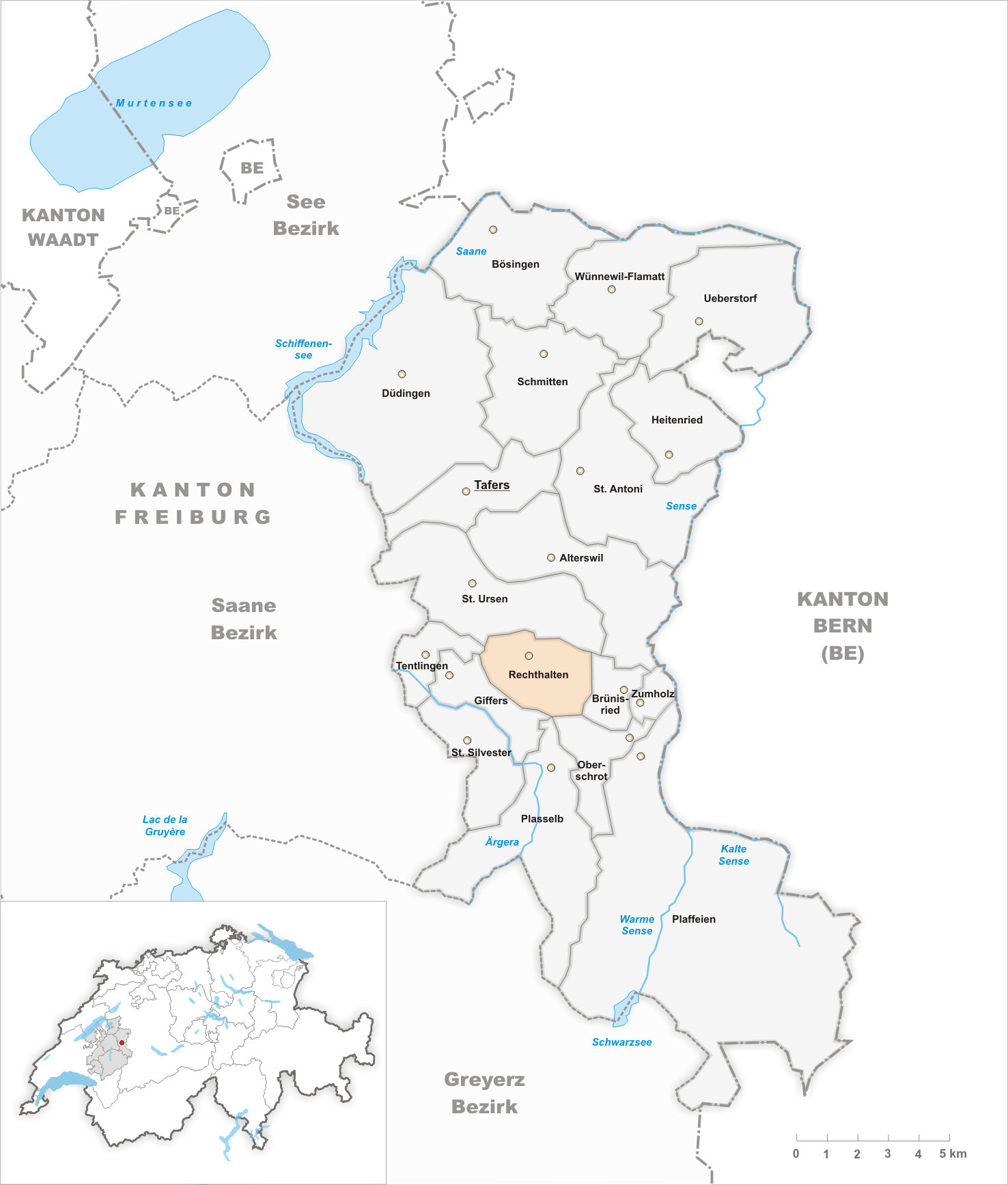 Municipality Rechthalten